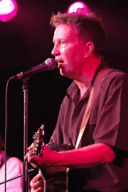 Tom Robinson July 29, 2004